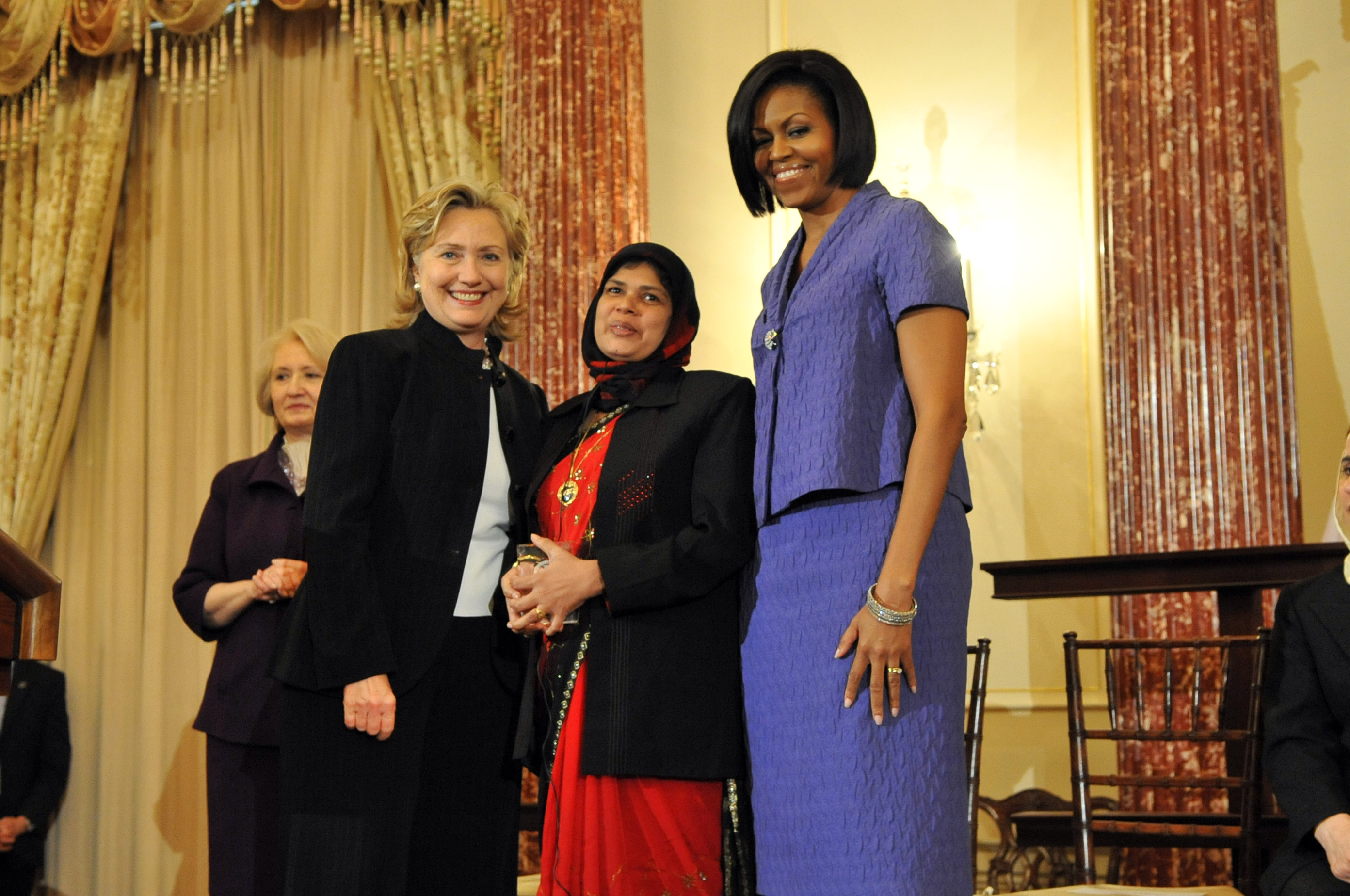 U.S. Secretary of State Hillary Clinton and First Lady Michelle Obama stand with Honoree Jansila Majeed of Sri Lanka at the 2010 International Women of Courage Awards at the U.S. Department of State, Washington, D.C. March 10, 2010. [State Department Photo/Public Domain]